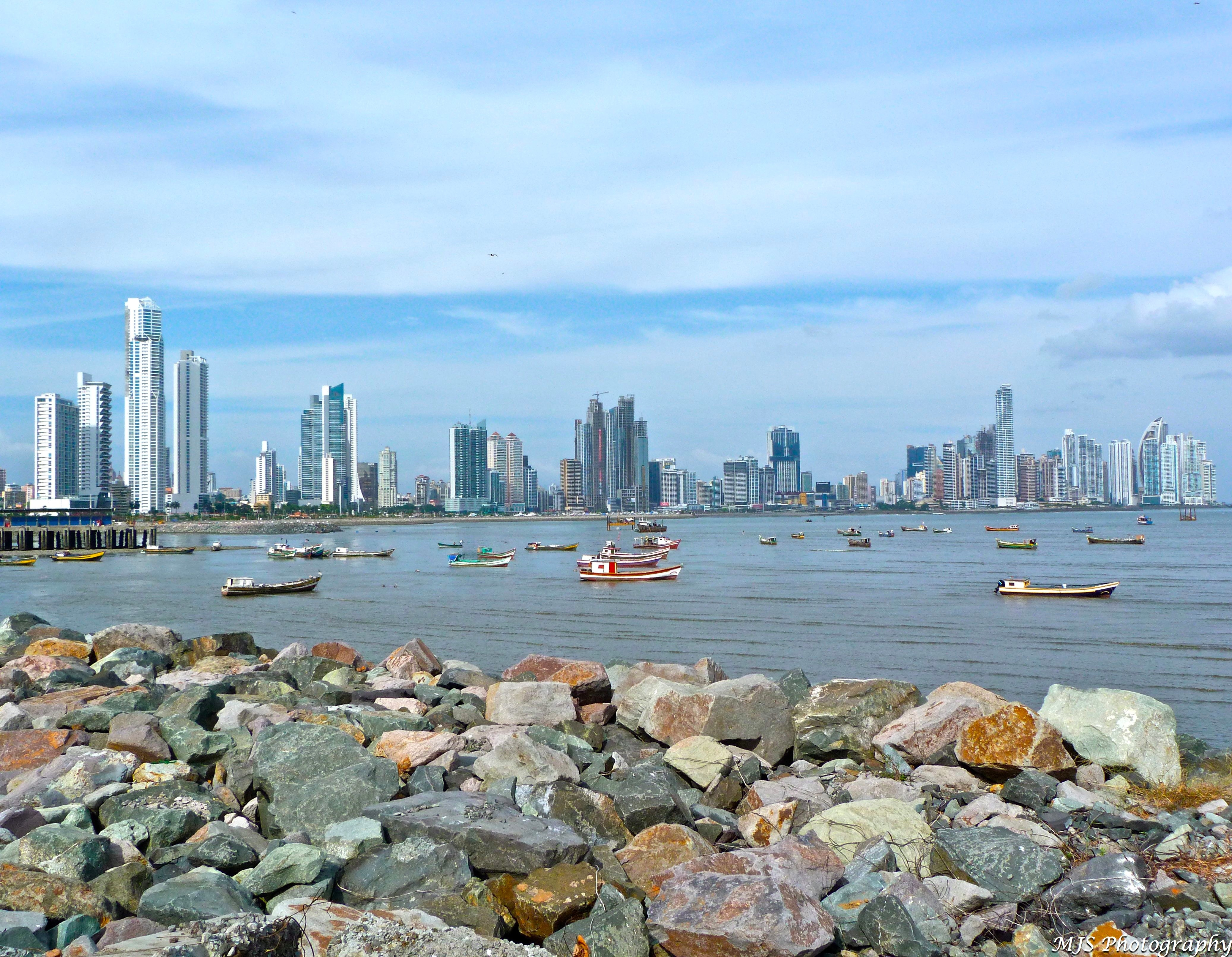 Panama city Skyline